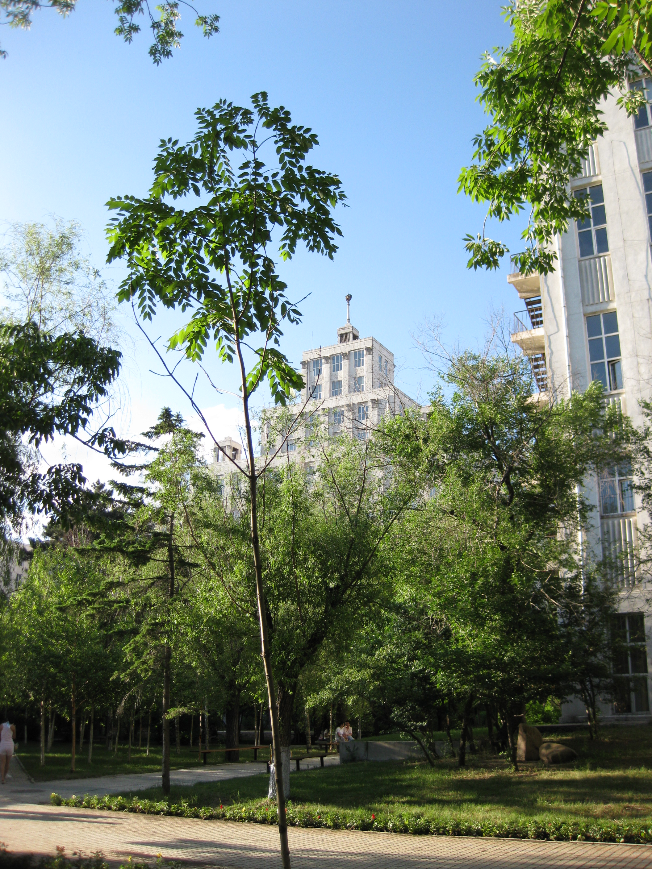 I took this picture in the square behind the main building, Northeast Forestry University, Harbin.